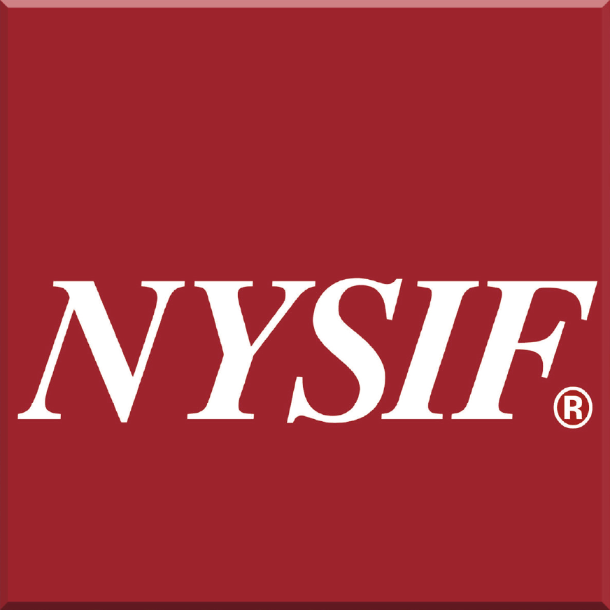 Logo of the New York State Insurance Fund